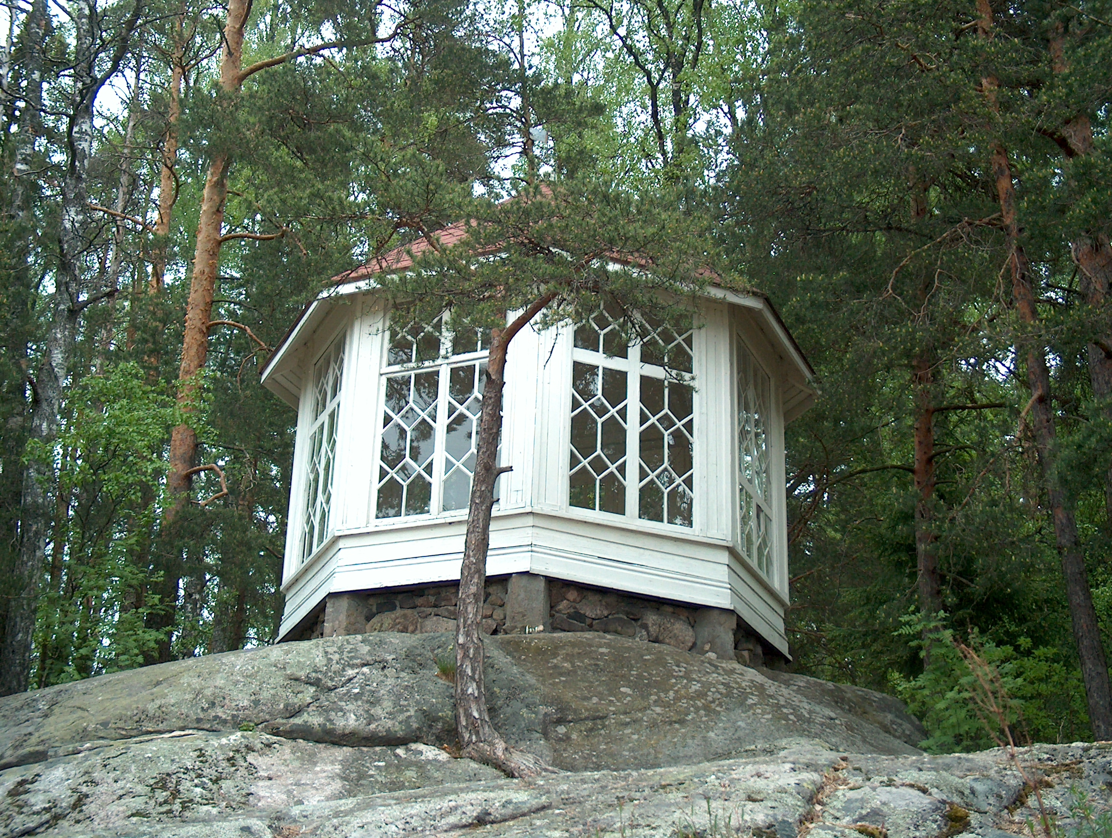 Gazebo in Fjällbo Park which is situated by the Lake Tuusulanjärvi.